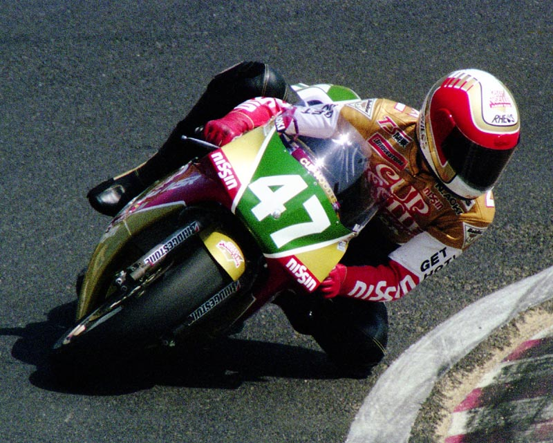 Nobuatsu Aoki, at Japanse Grand Prix 1990